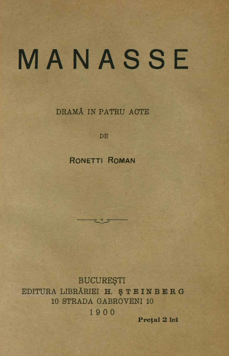 Title page of the play "Manasse", by Ronetti Roman (died 1908).